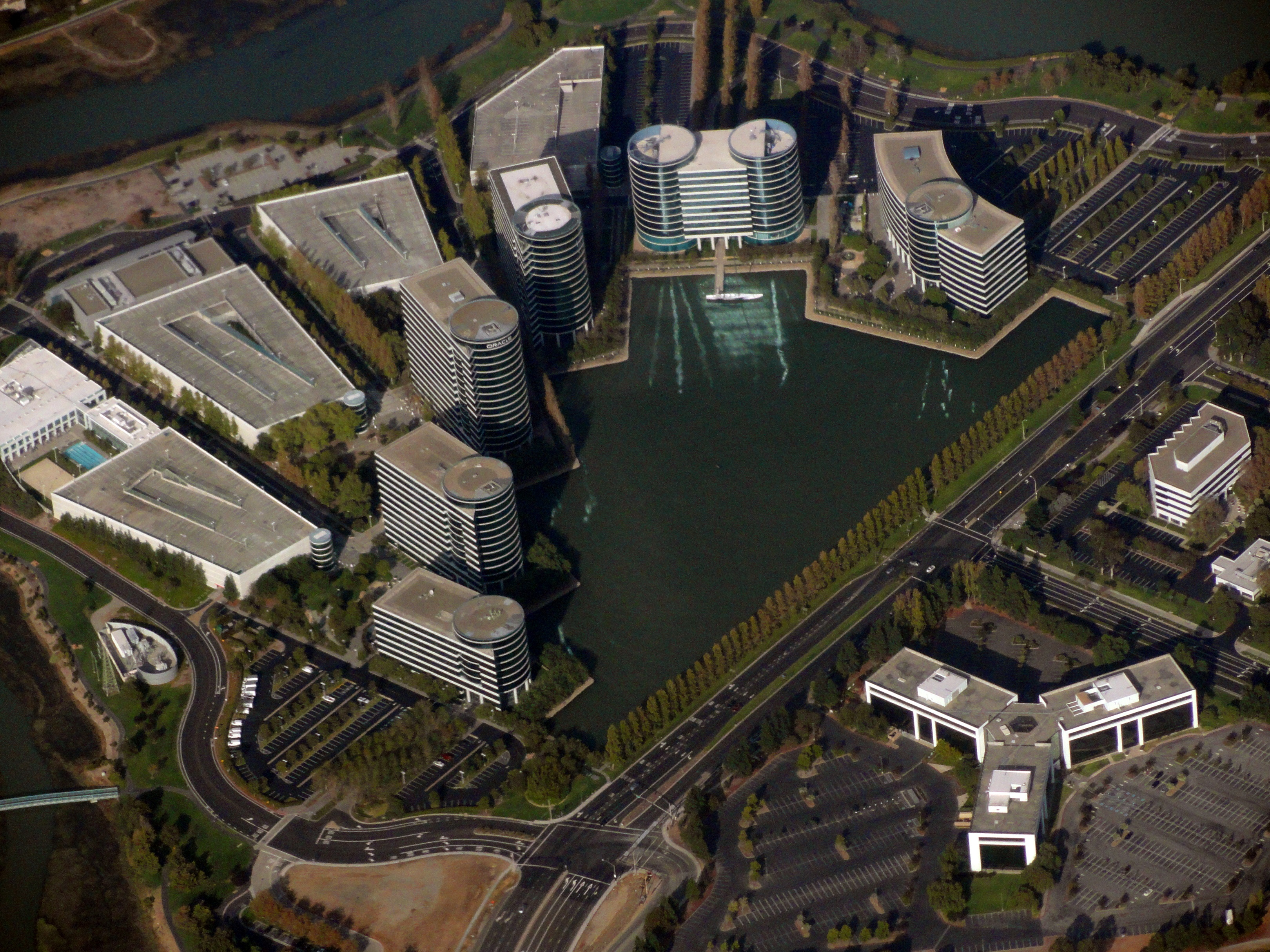 Aerial view of Oracle Headquarters in California.